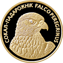 Peregrine Falcon. Silver commemorative coins, denomination: 20 rubles. Belarus.